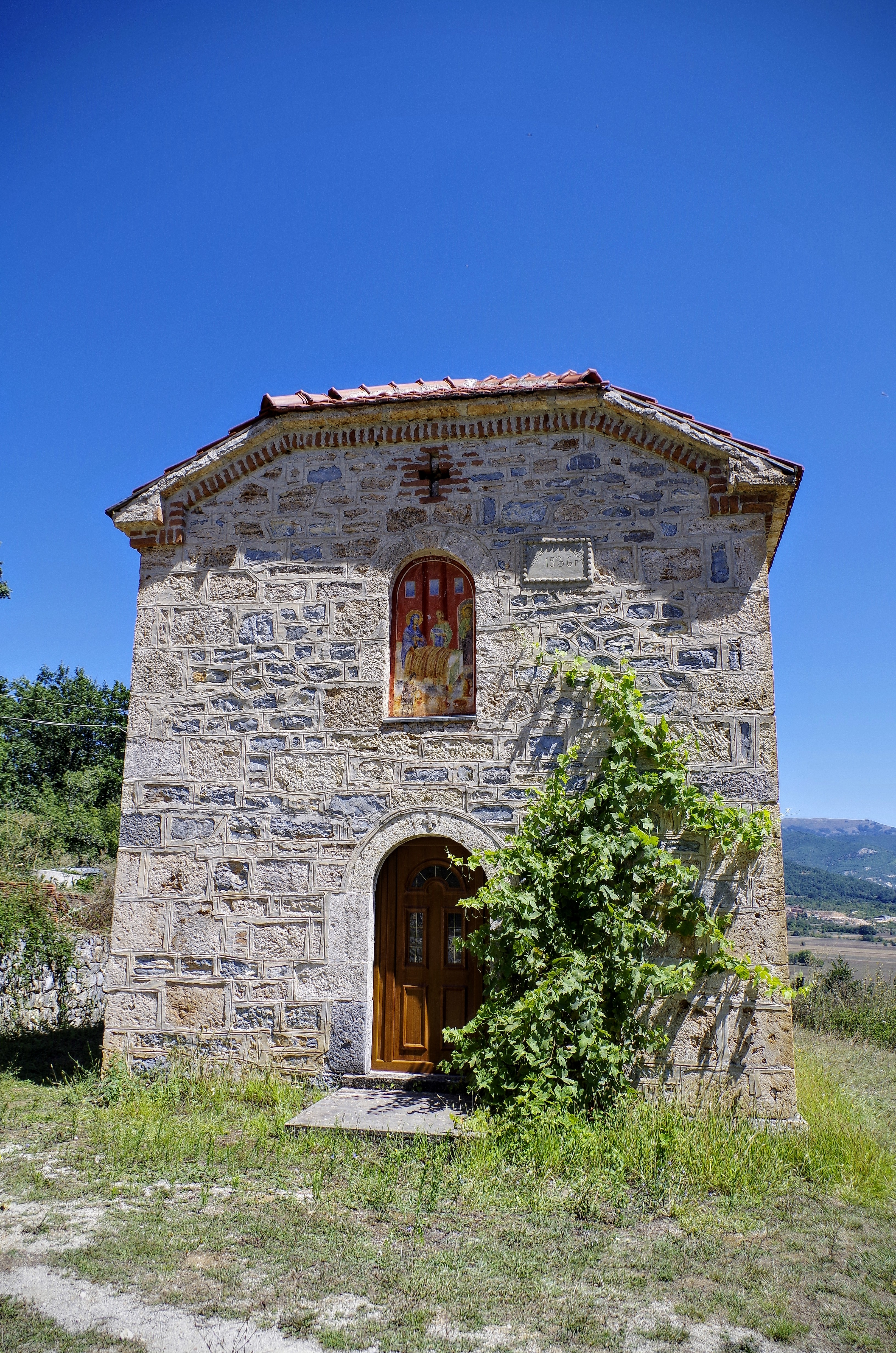 View of the Church of the Theotokos in the village Gorno Sredorečie